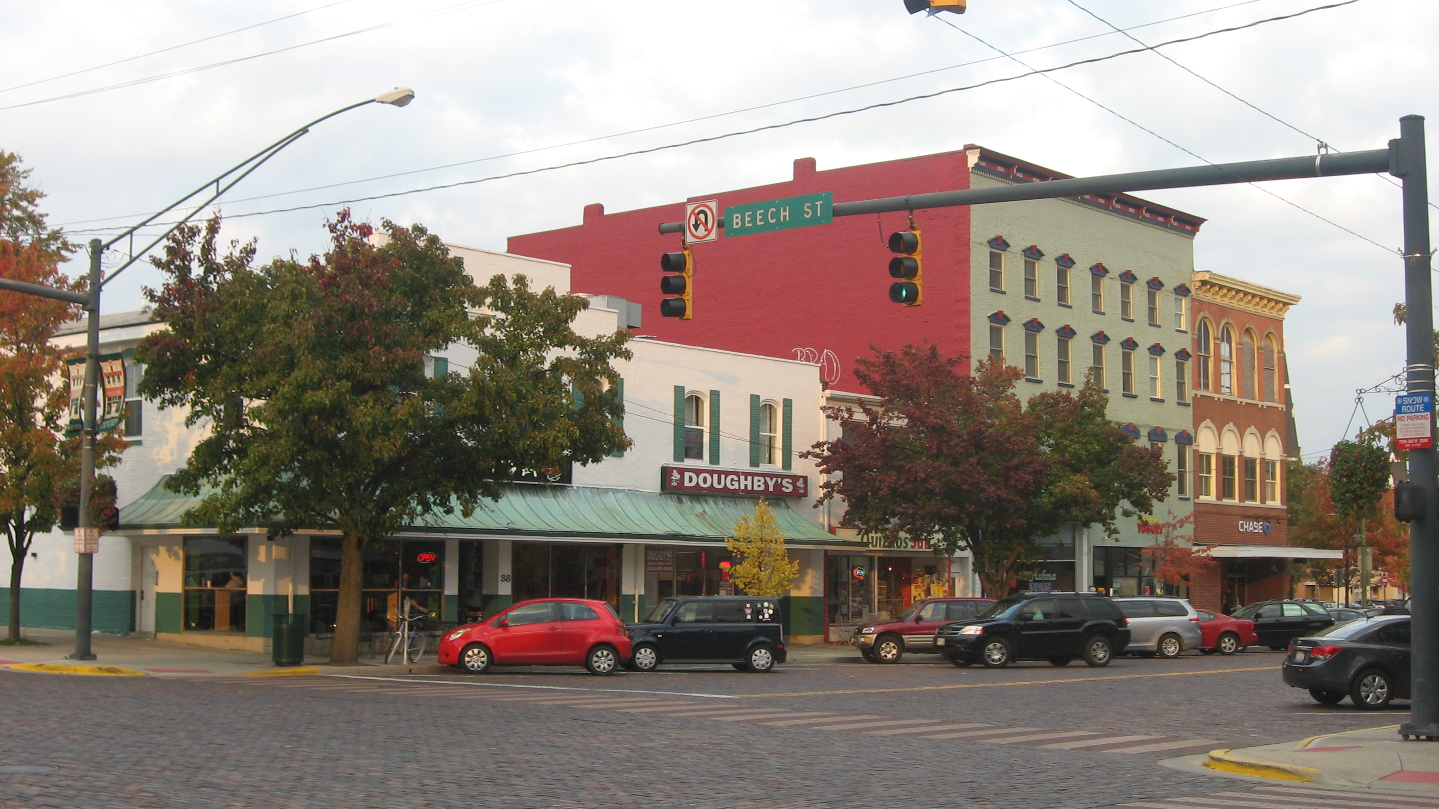 Buildings on the northern side of High Street (U.S. Route 27) east of the Beech Street intersection in Oxford, Ohio, United States.